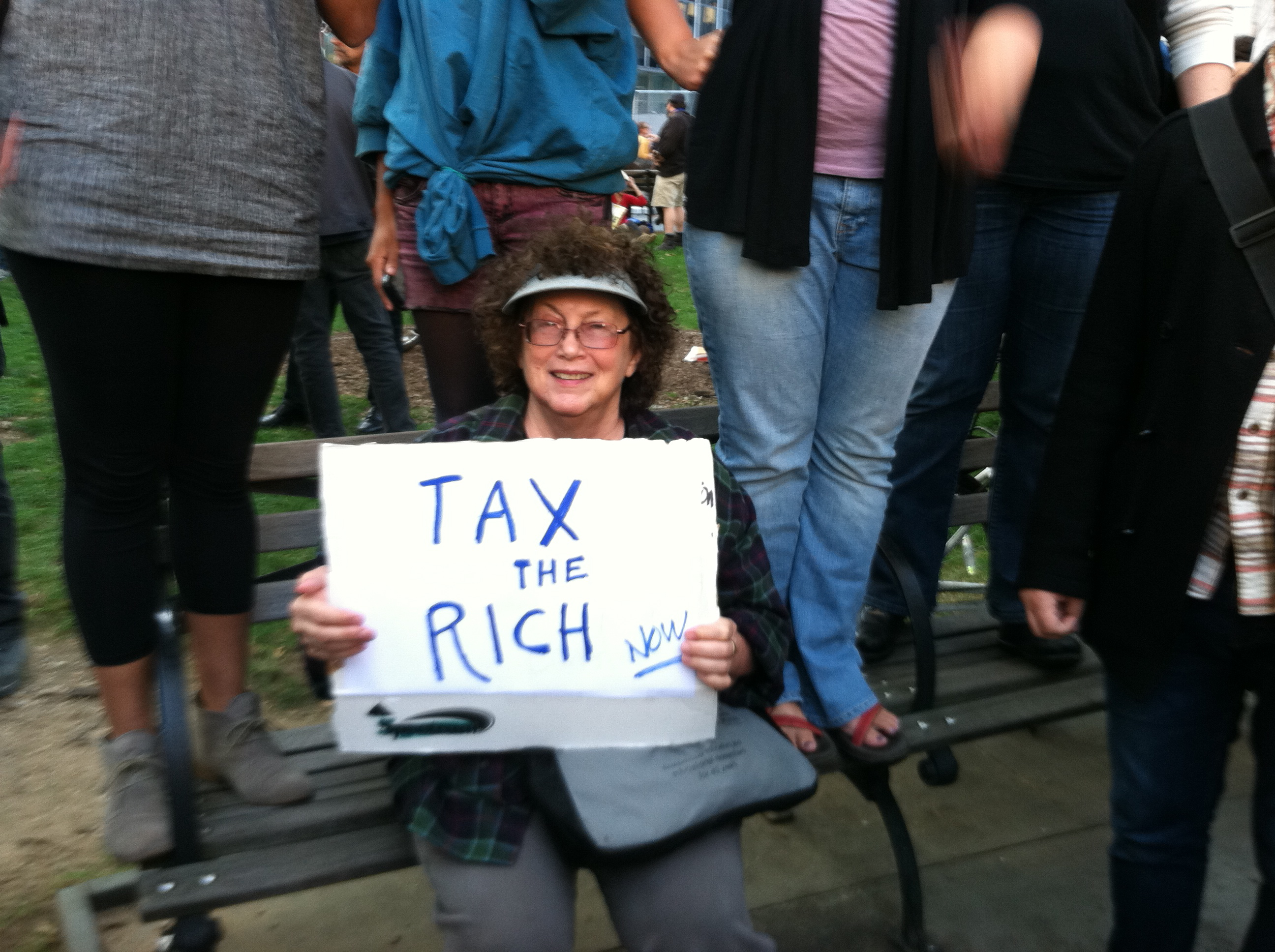 Dr. Jean M. Anyon with students and colleagues at OWS on October 5, 2011.